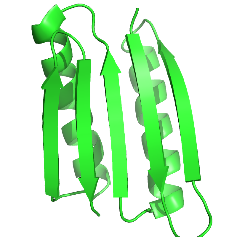 Ribbon diagram of the Top 7, computationally designed protein, based on the structure PDB id: 1QYS. The fold corresponds to one not seen previously on nature. For more information see: Kuhlman, Brian, et al. "Design of a novel globular protein fold with atomic-level accuracy." Science 302.5649 (2003): 1364-1368.